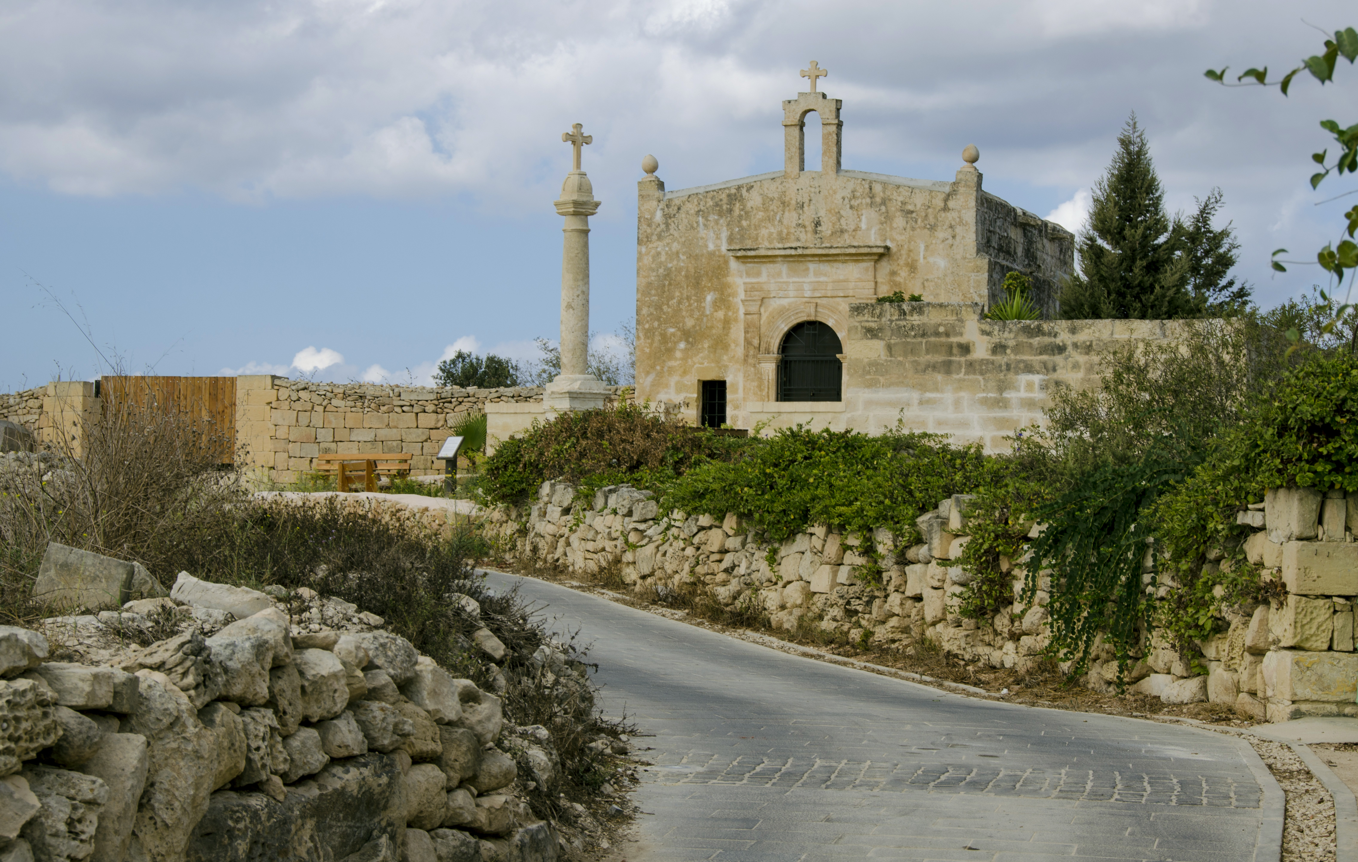 St John's Chapel, Ħal Millieri